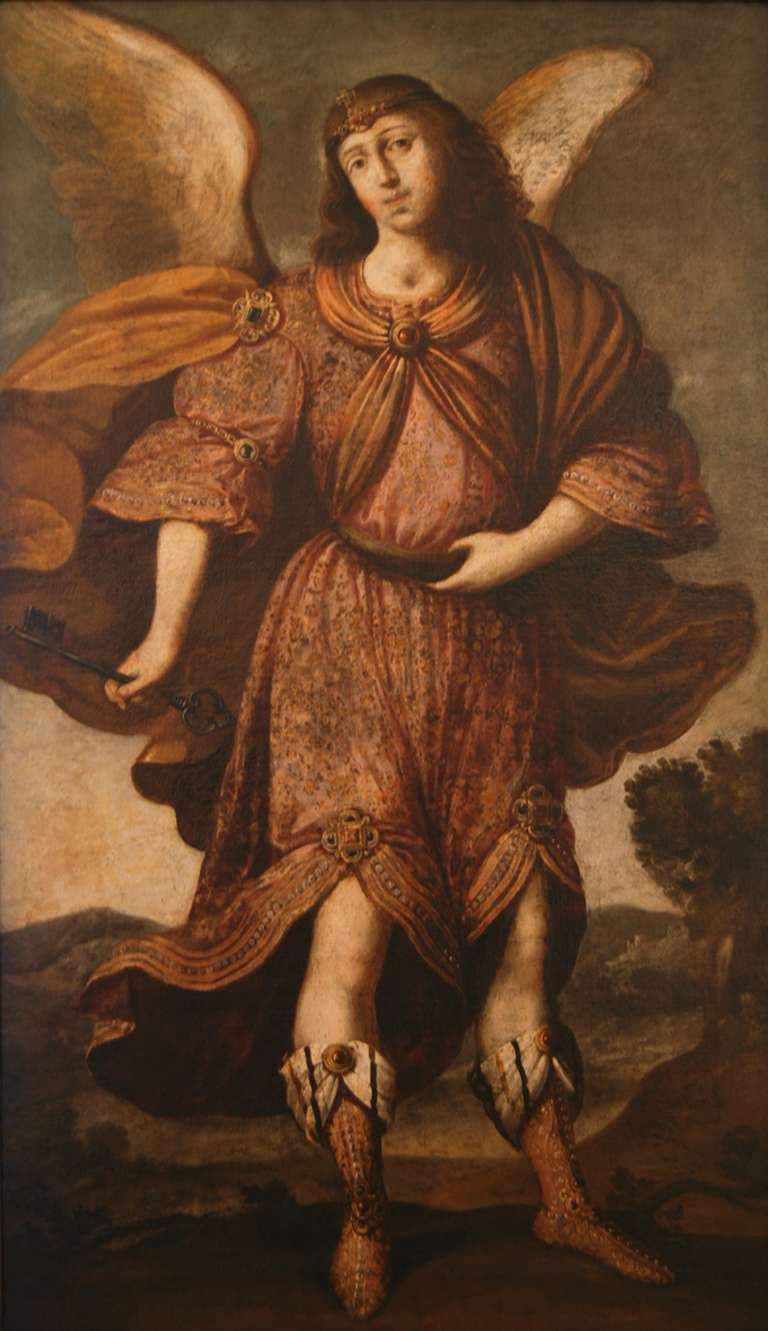 This portrait, created in Seville, Spain in the mid-1600s, depicts Raziel with long hair, outspread wings, and jewel-adorned, flowing garments. In his right hand he holds a key, symbolizing his status as a keeper of secrets and divine mystery. The painting is attributed to the circle of Francisco de Zurbarán, a renowned 17th century Spanish painter.